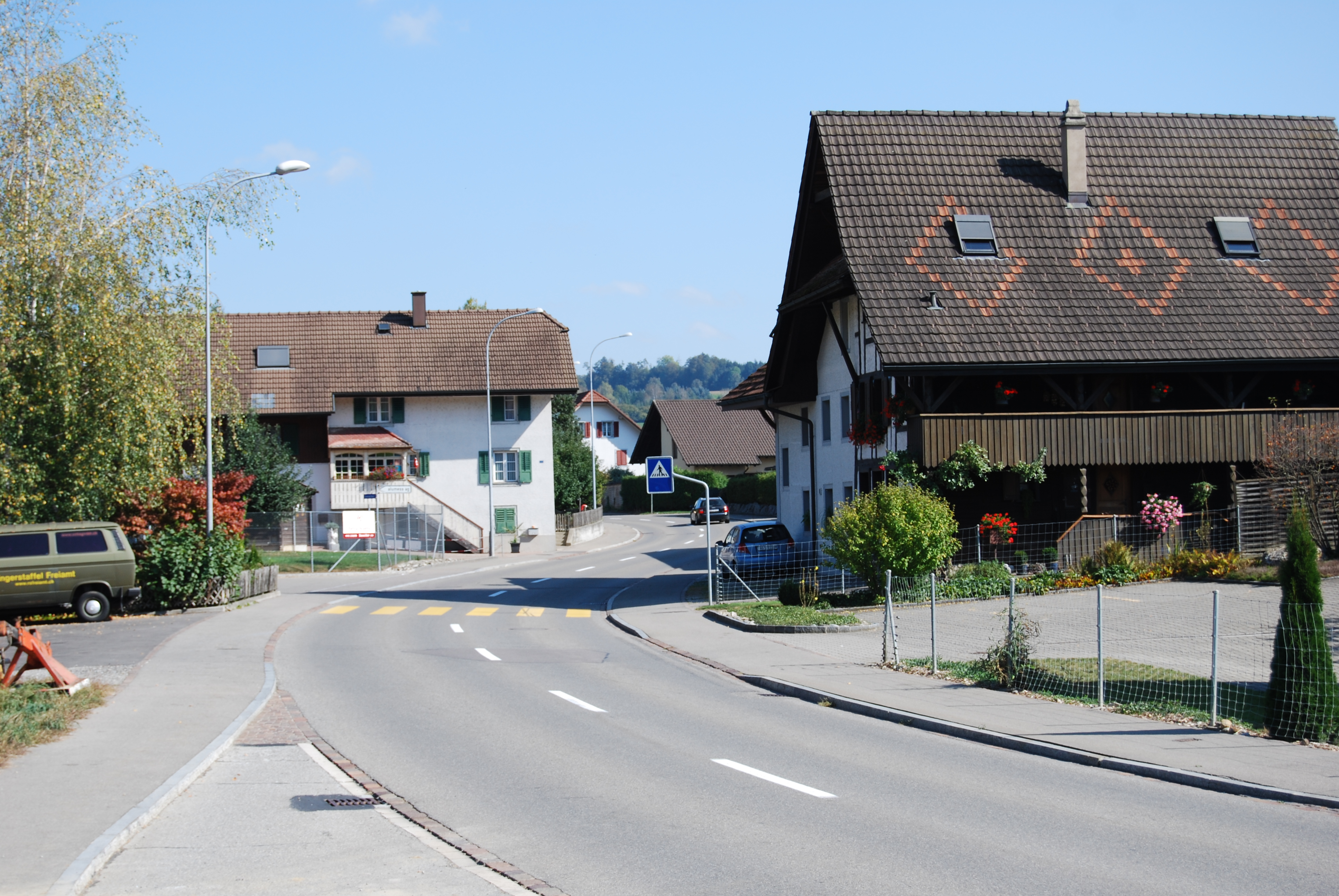 Rottenschwil, canton of Aargau, SwitzerlandEsperanto: Rottenschwil, Kantono Argovio, Svislando